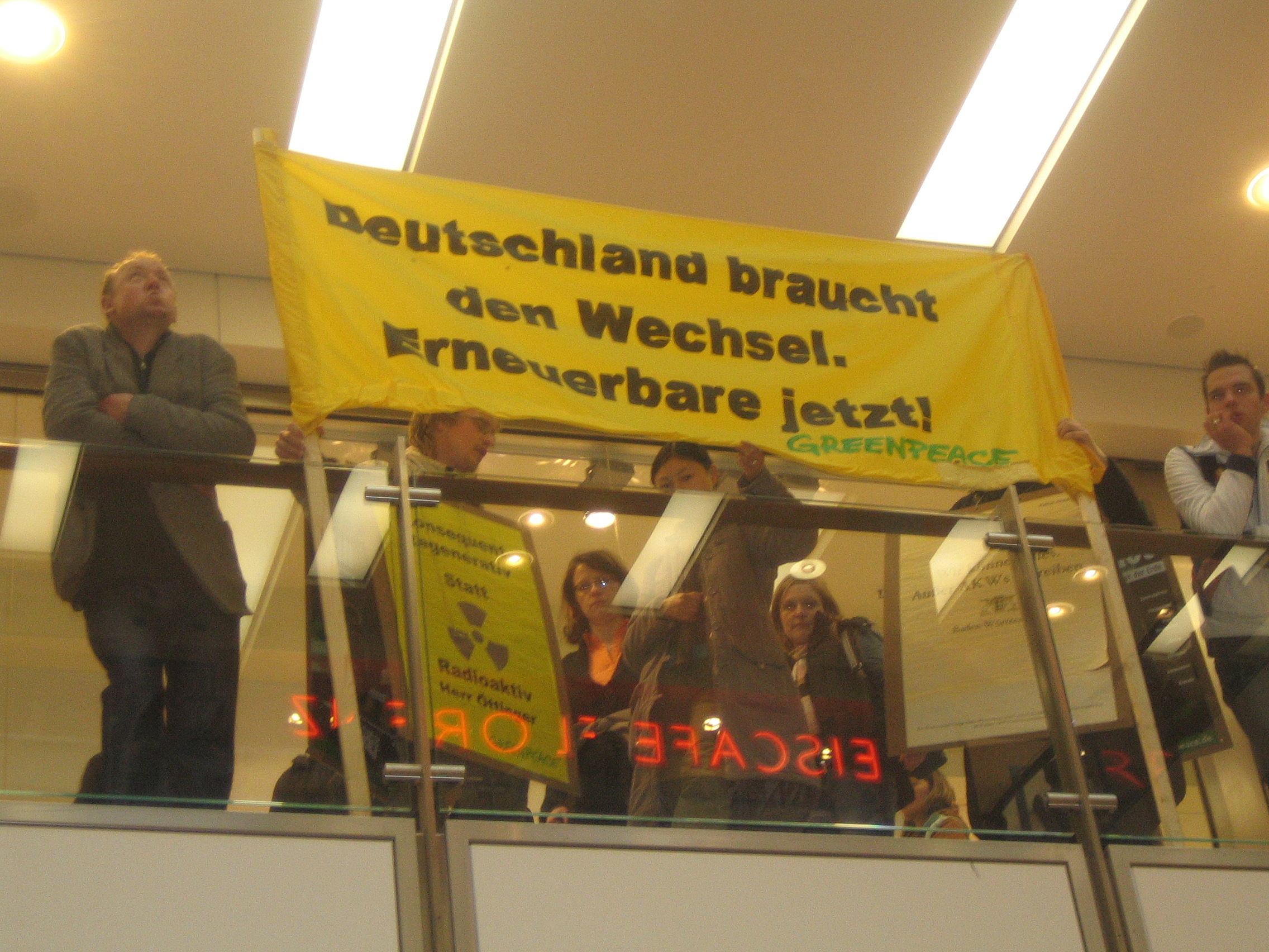 Greenpeace-Demonstranten am 25.3.2006 in Karlsruhe, selbst fotografiert